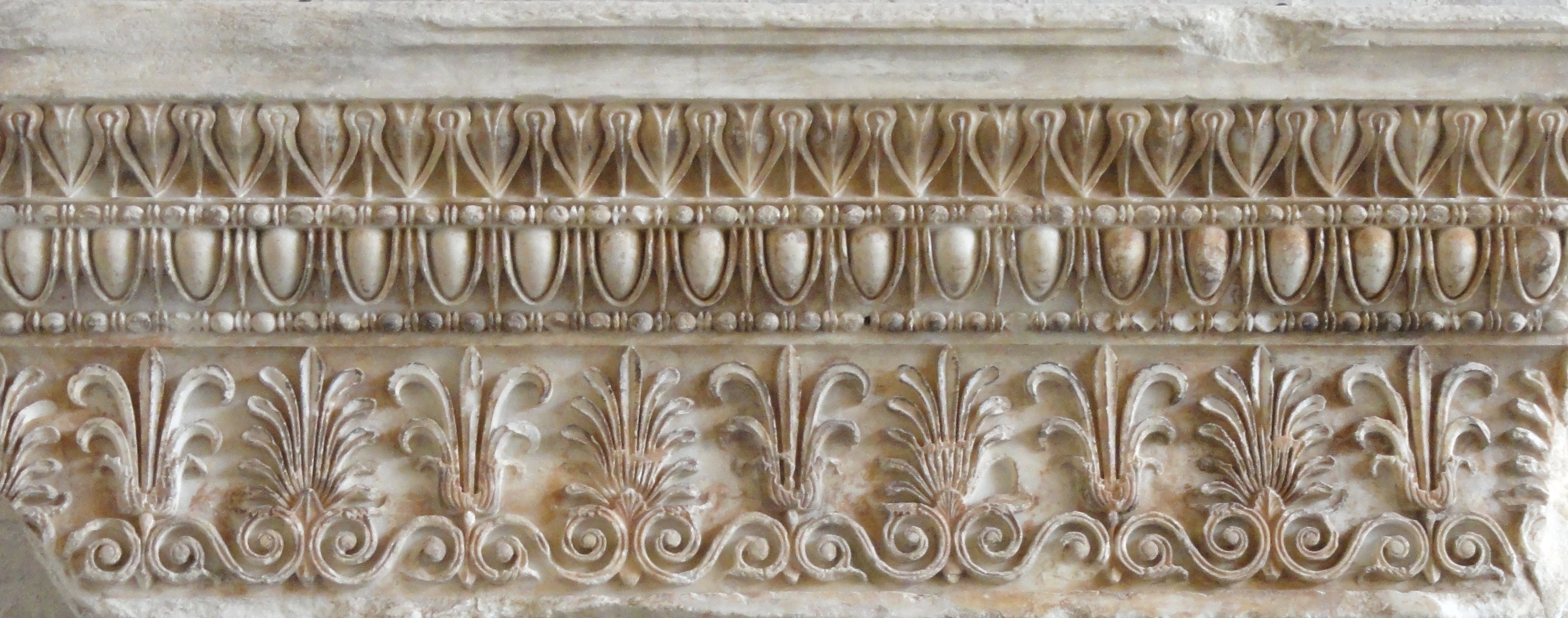 Ionic frieze from the Erechtheum (Athens), dimensions: 130 × 50 cm, in the Glyptothek (Munisch, Germany)